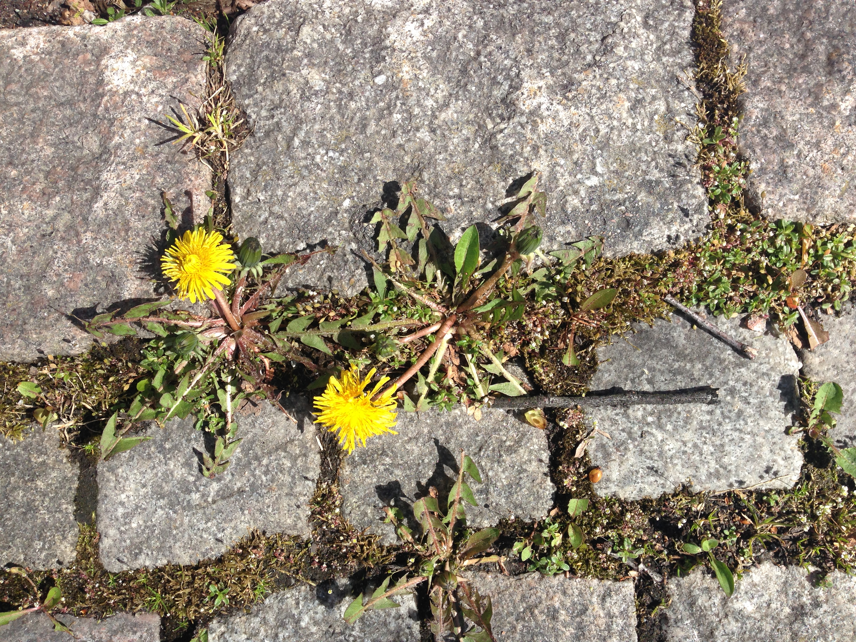 MAskros